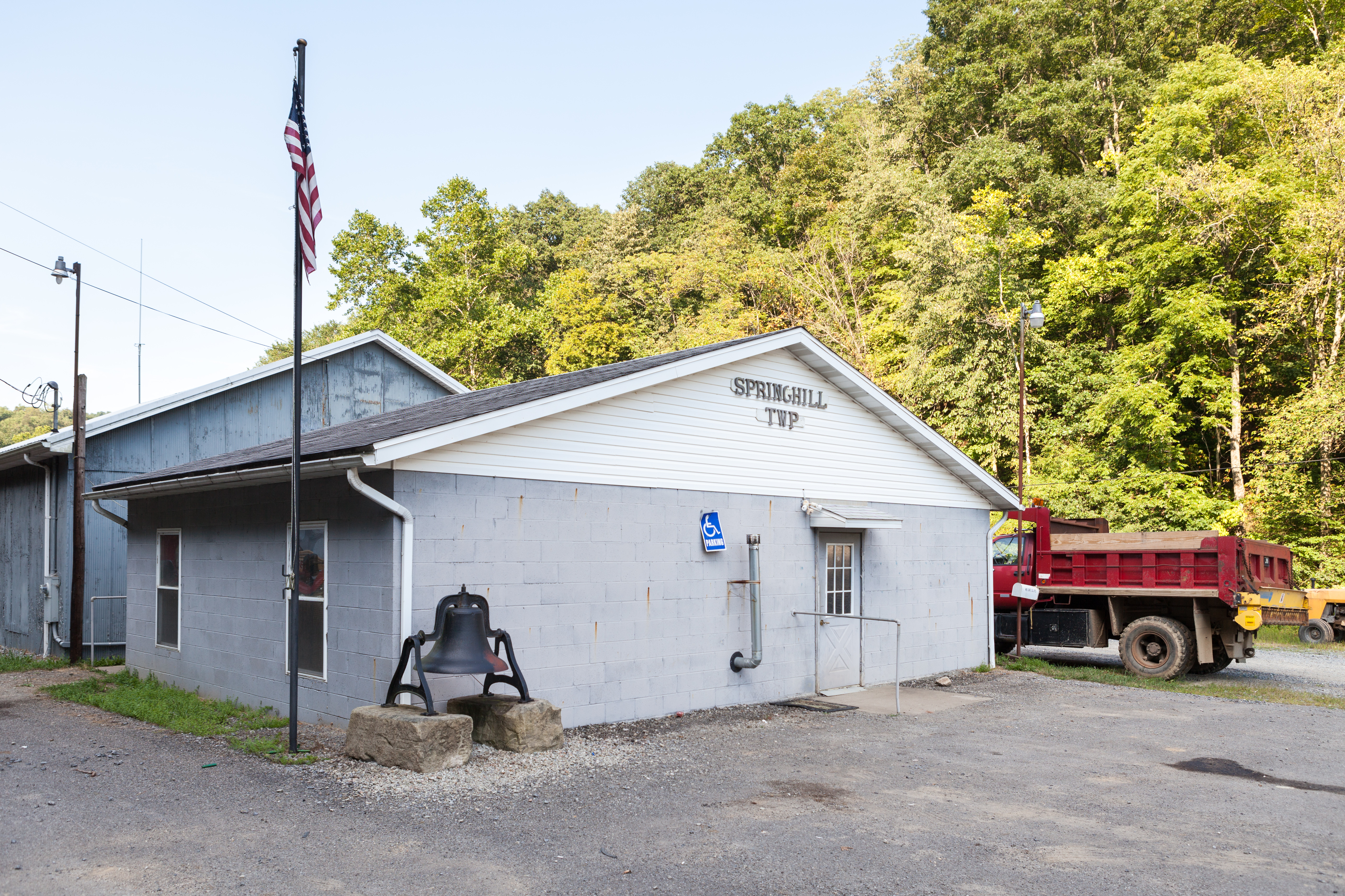 Springhill Township Municipal Building, Springhill Township, Greene County, Pennsylvania, located at 268 Windy Gap Road.